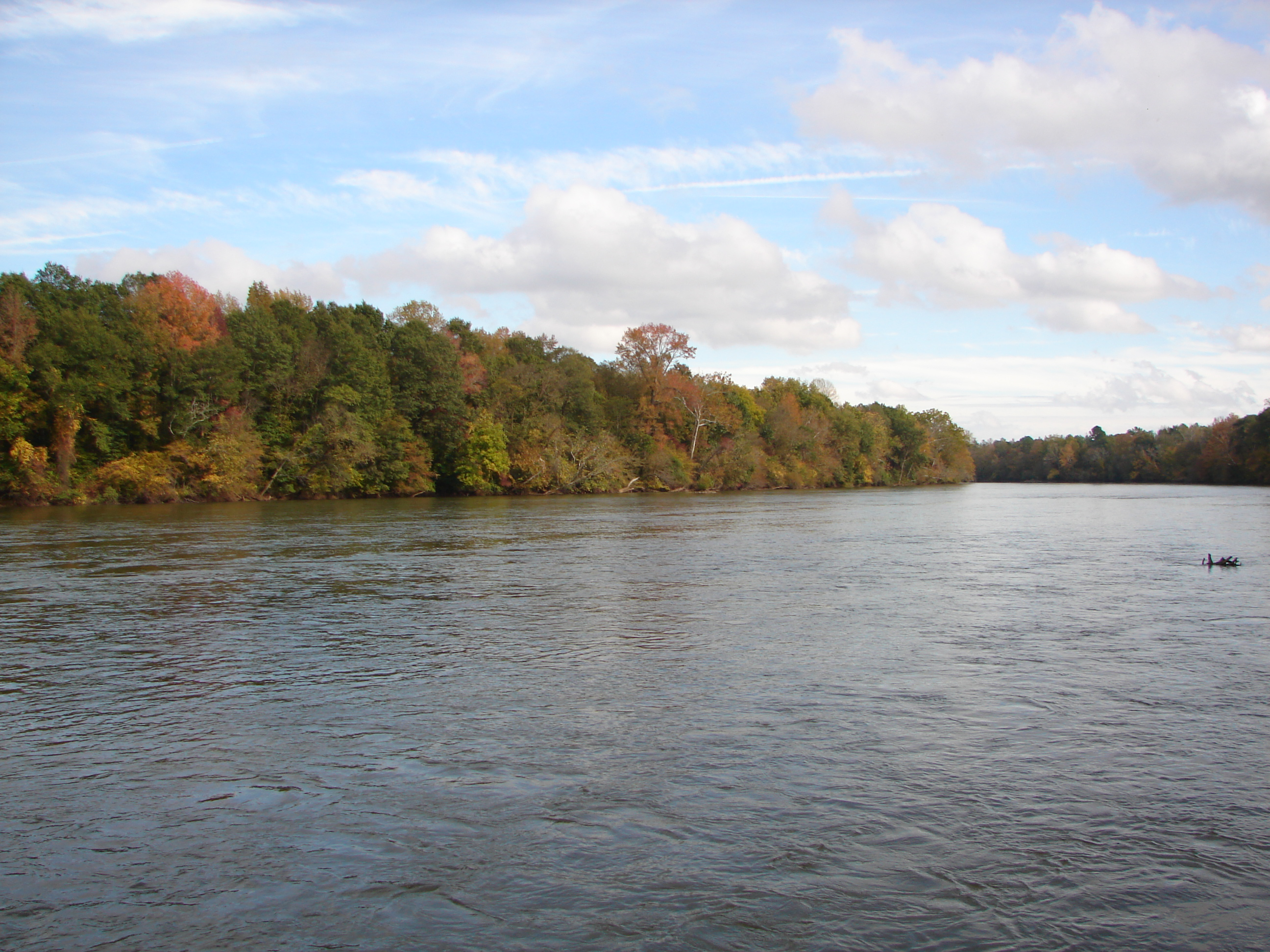 Catawba River in the fall at River Park in Rock Hill, South Carolina